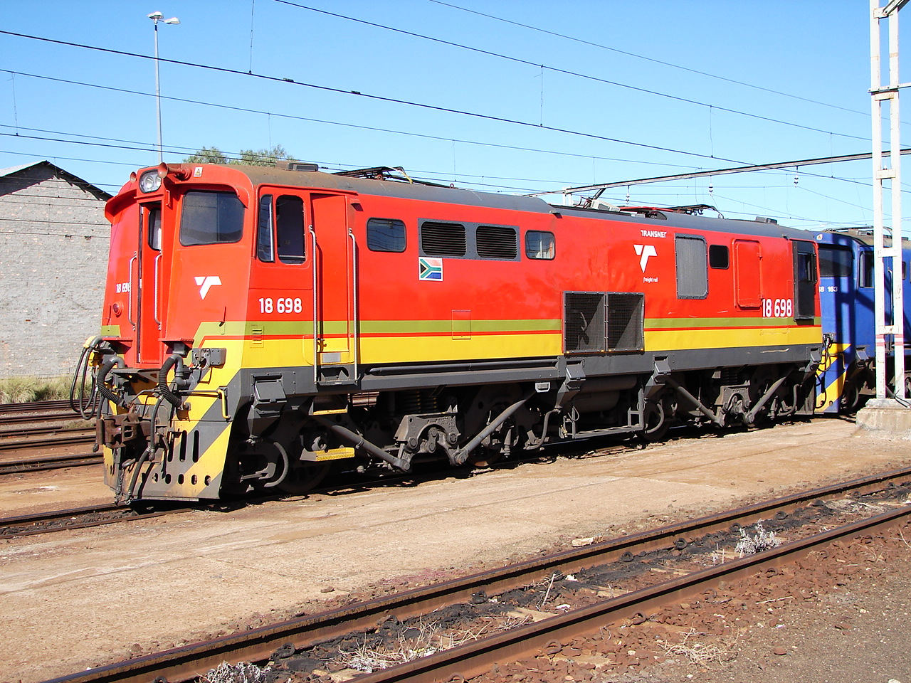 TFR Class 18E Series 2 18-698Location: Beaufort West, Western CapeHistory: Rebuilt in 2012 from Class 6E1 Series 5 E1553